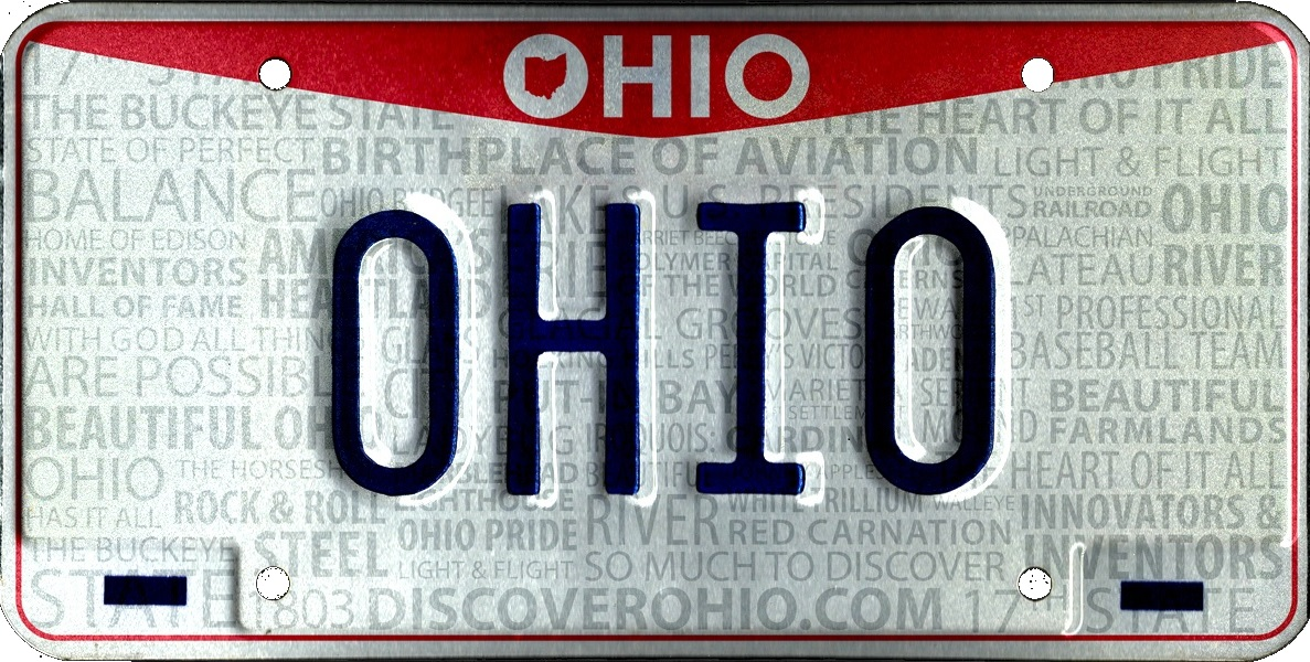 Photograph of a 2013 Ohio sample license plate on a black background.